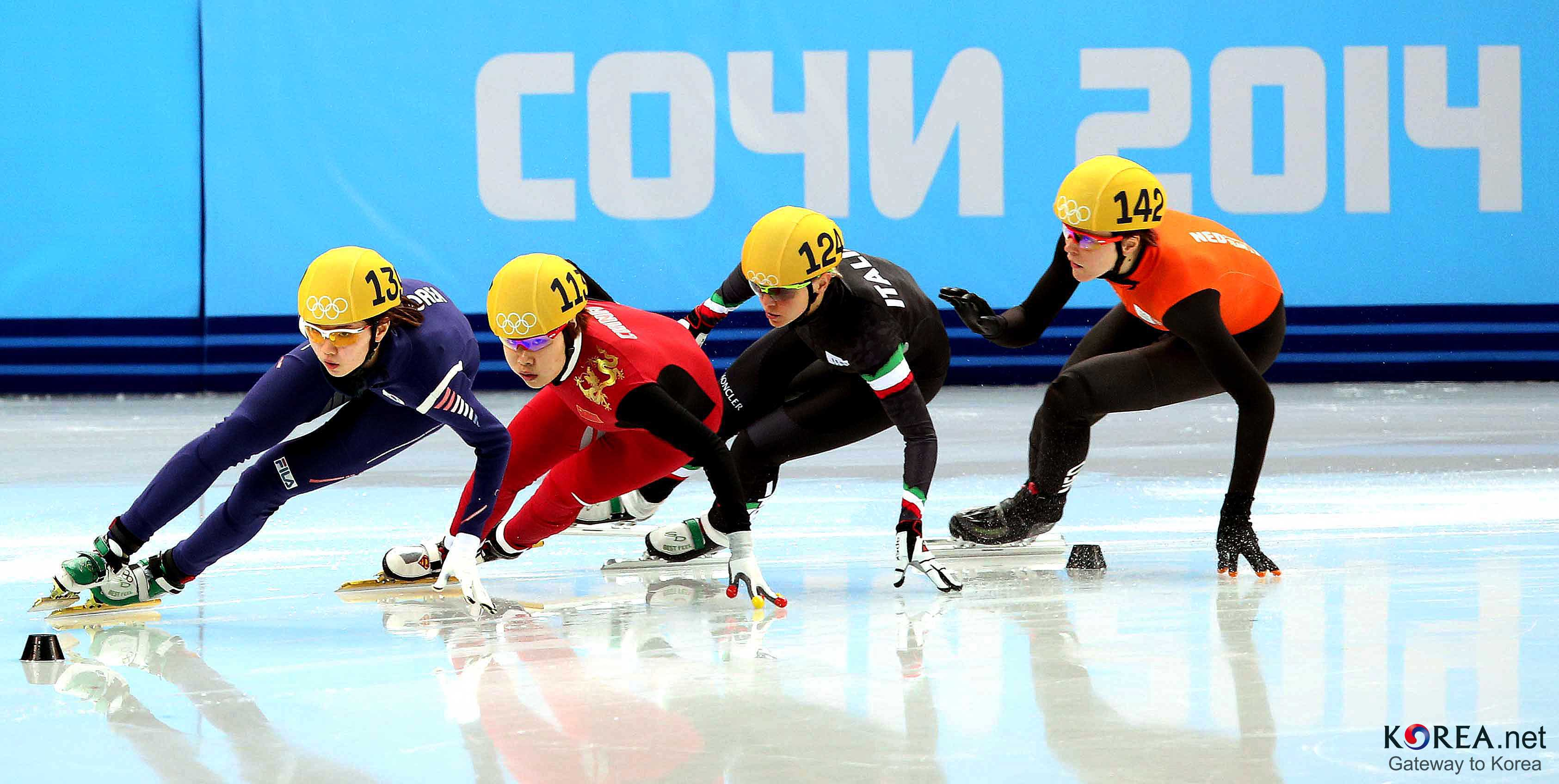 Shim Suk-hee won her first Olympic Medal in Sochi. Iceberg Skating Palace, Sochi, Russia